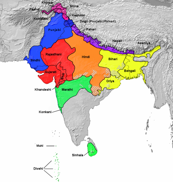 1978 map showing Geographical distribution of the major Indo-Aryan languages. The western part is Proto-Indo-Europeans[1] (not shown in this map) including Medes, Persians, and Parthians [2] and Eastern Part (Urdu is included under Hindi. Romani, Domari, and Lomavren are outside the scope of the map.) Dotted/striped areas indicate where multilingualism is common. Central Dardic Eastern Northern Northwestern Southern Western